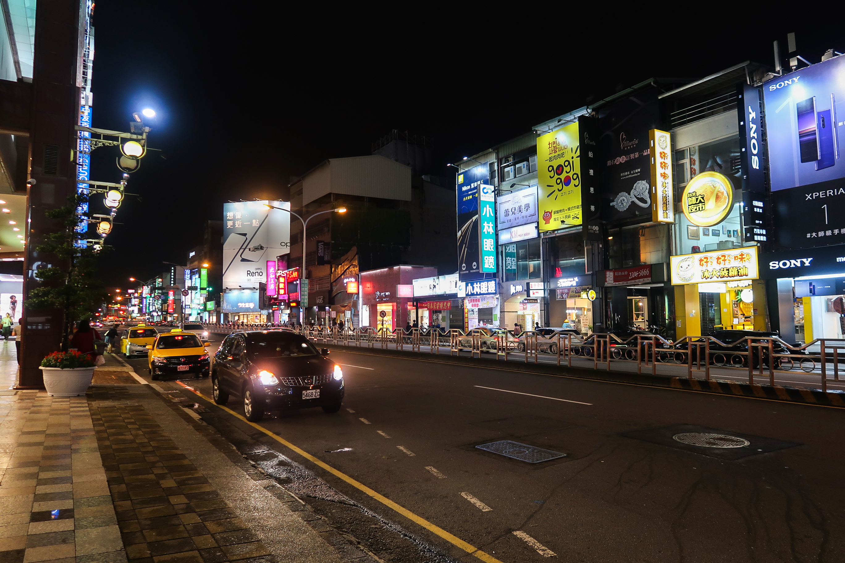 Sanmin Road Section 3, Taichung